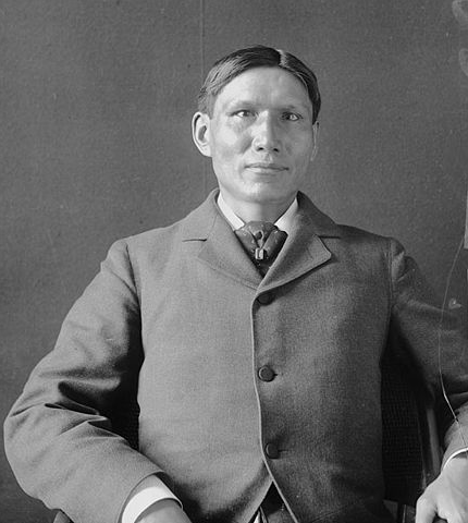 Portrait (Front) of Ohiyesa (The Winner), or Dr Charles Alex Eastman, Brother of Reverend John Eastman APR 1897.